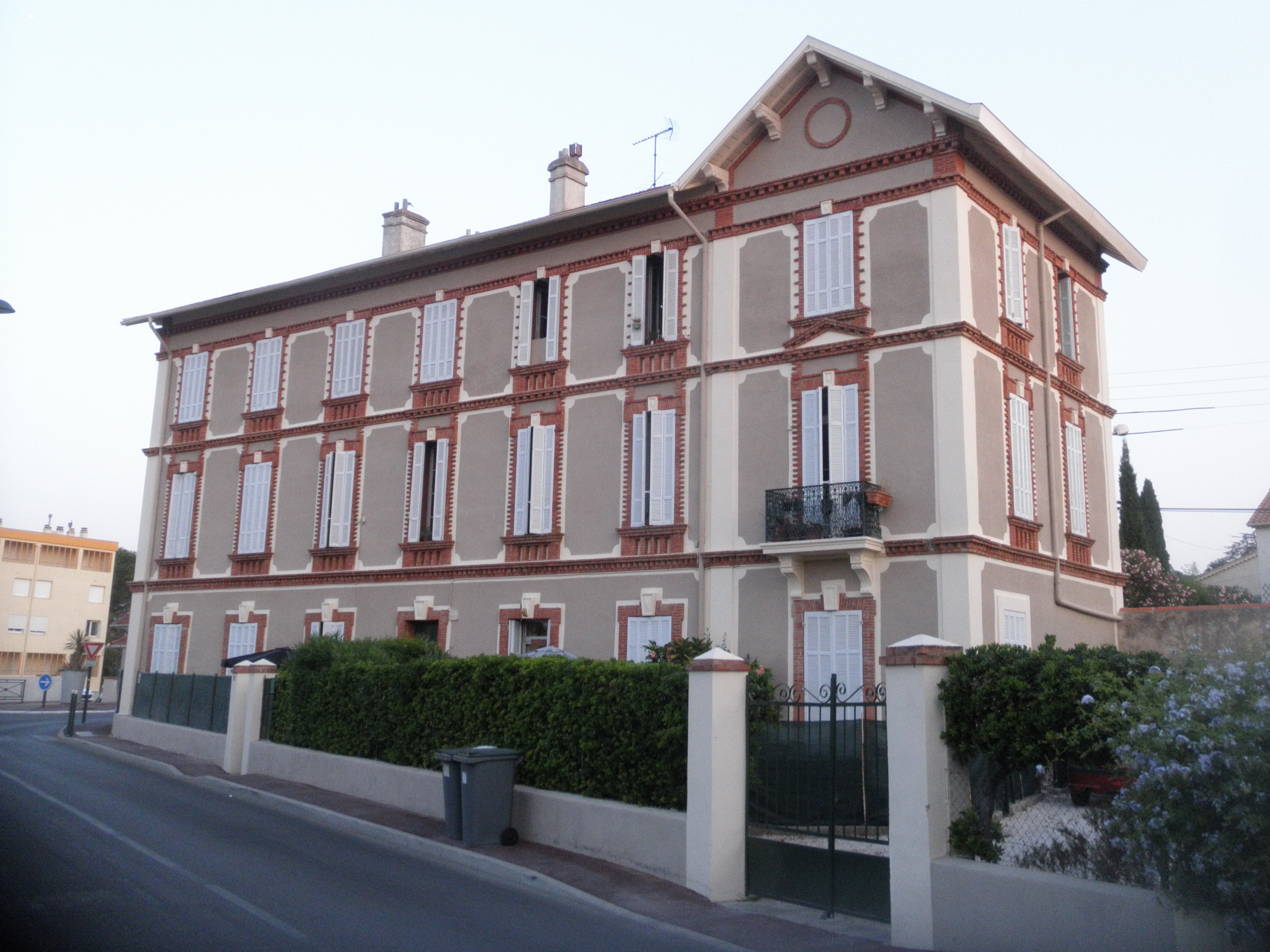 Batiment d'horticulture